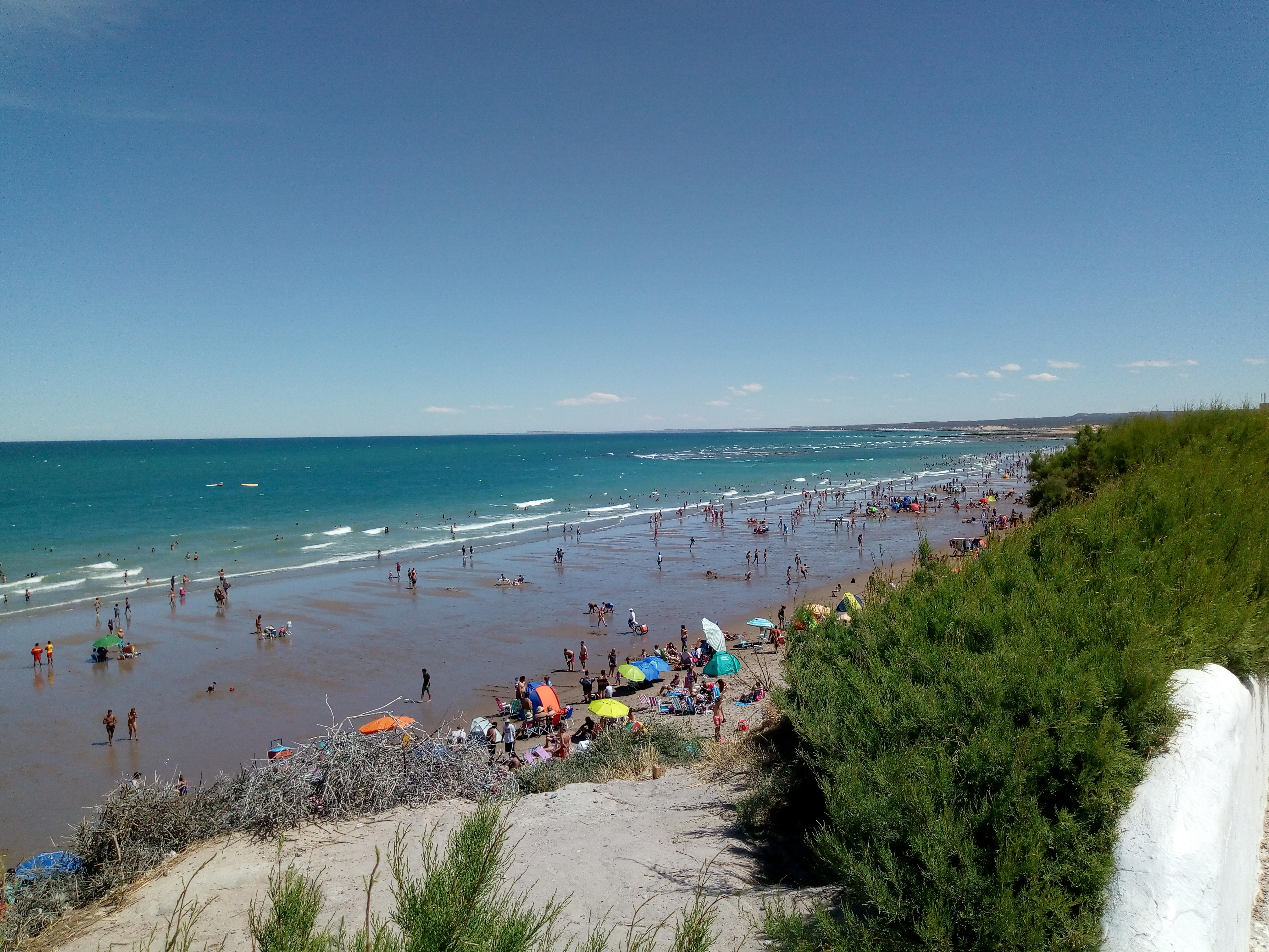 Primera bajada de las Grutas